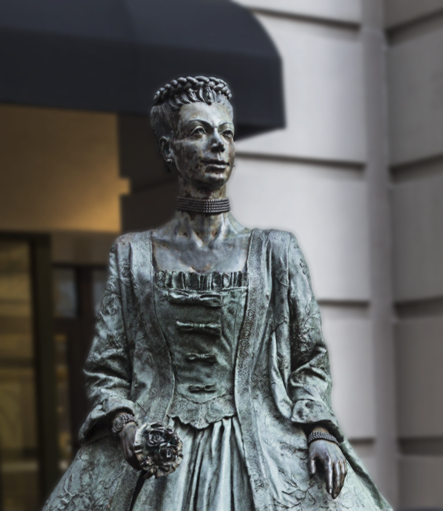 500px provided description: This statue is in front of Wake Forest University on North College Street in Charlotte. [#statue ,#nc ,#charlotte ,#QC]